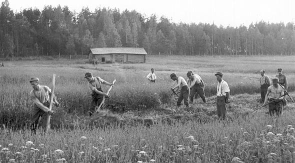 When the Karelians had returned to their home after the offensive, soldiers helped them reap the harvest. Picture from Rautjärvi.